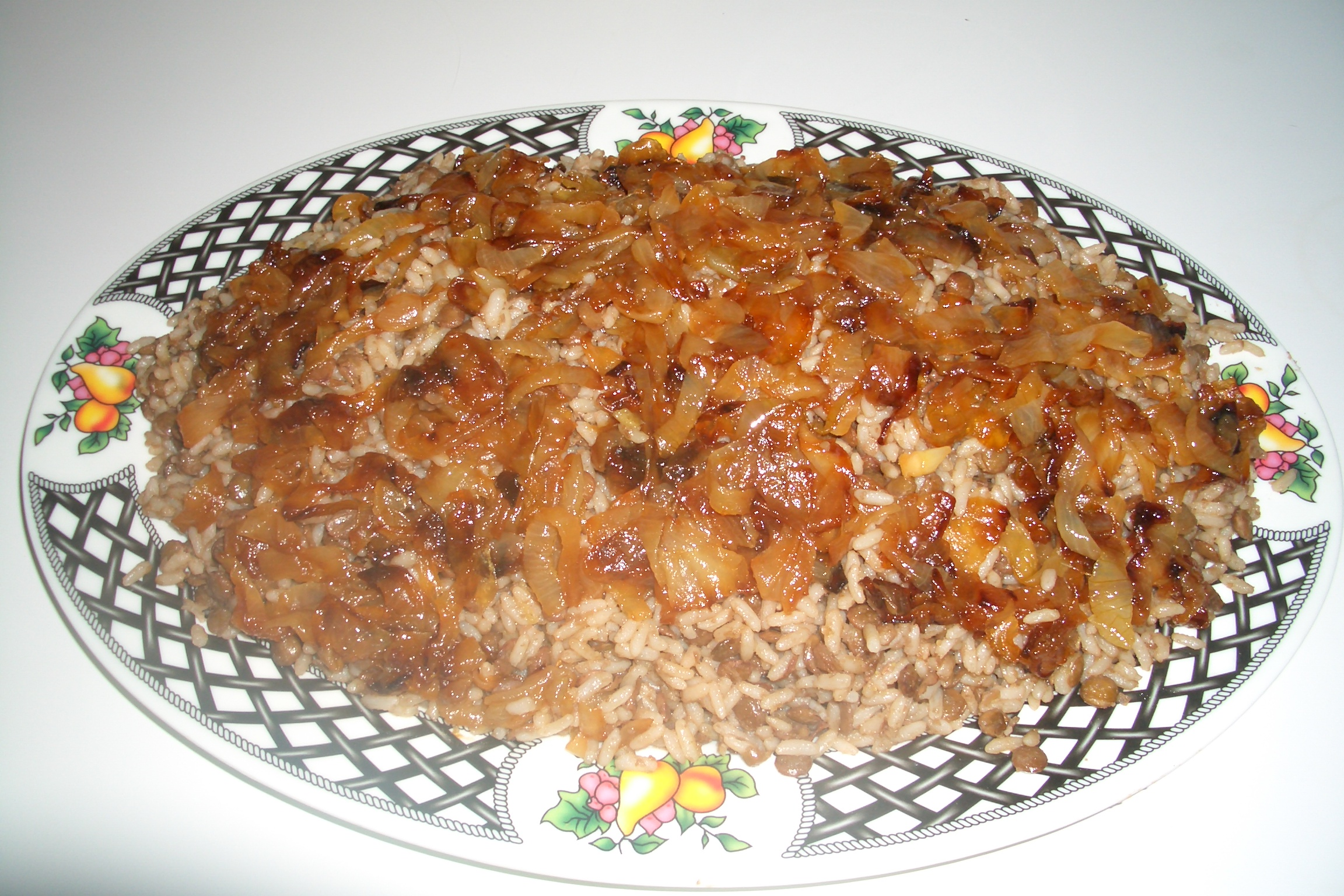 Syrian style Mujaddara